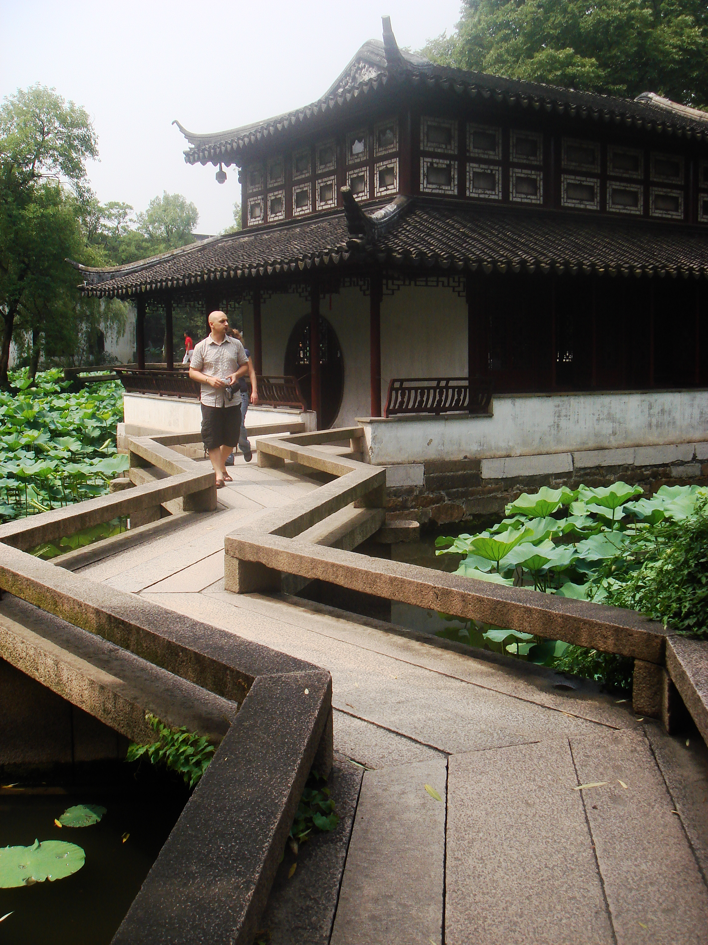 Bridge in Humble Administrator's Garden, Suzhou ,China